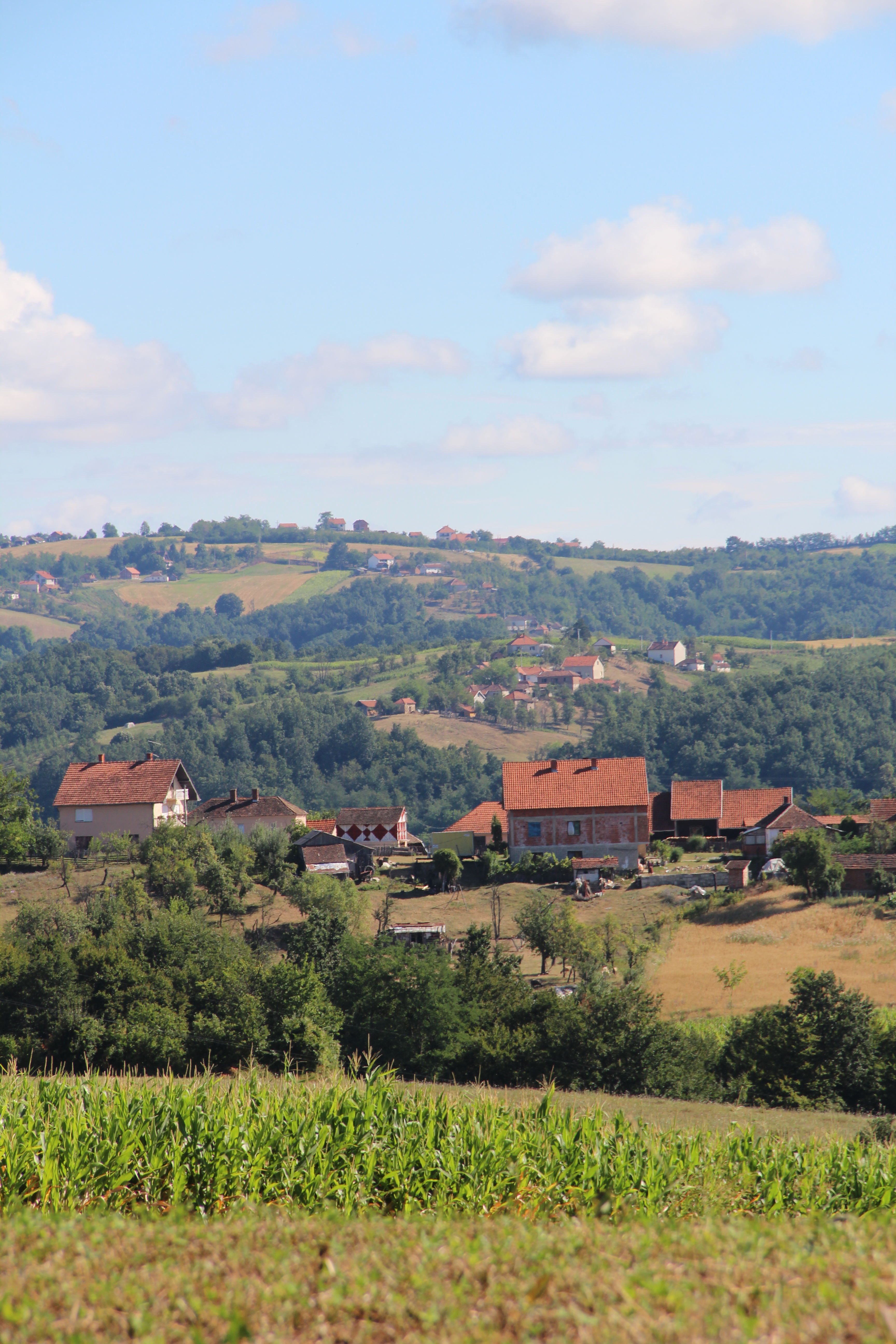 Beomužević village - Municipality of Valjevo - Western Serbia - Panorama 15